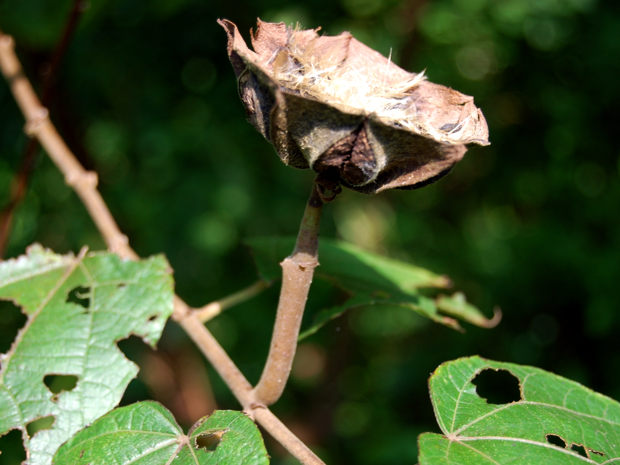 Abroma augusta; opening capsule. From Bogor, West Java, Indonesia.